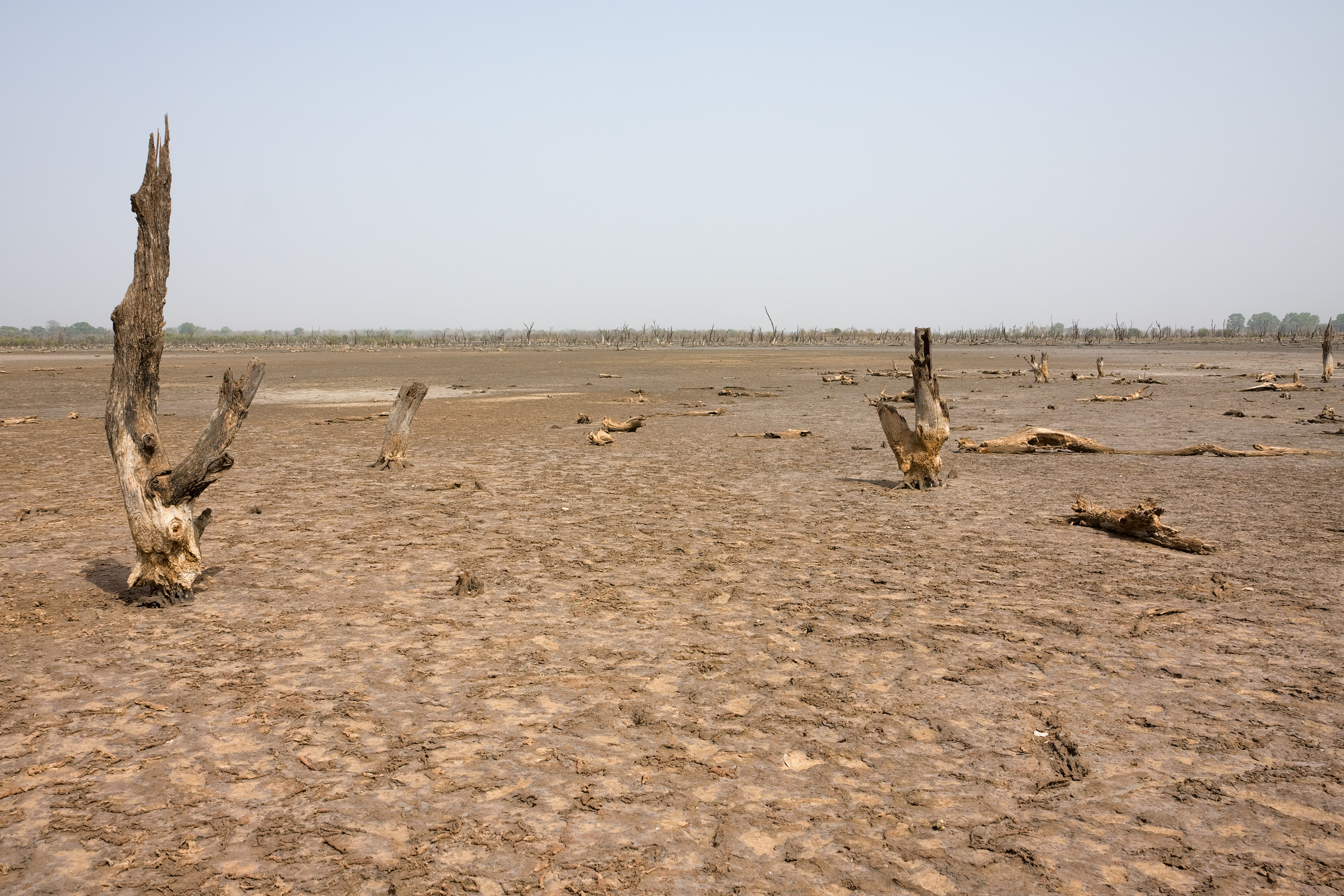 Dry sump at low tide near Kalagi/The Gambia